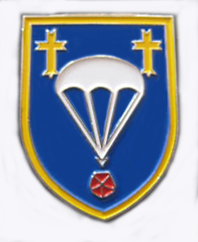 Staff & HQ Company 31st Airborne Brigade